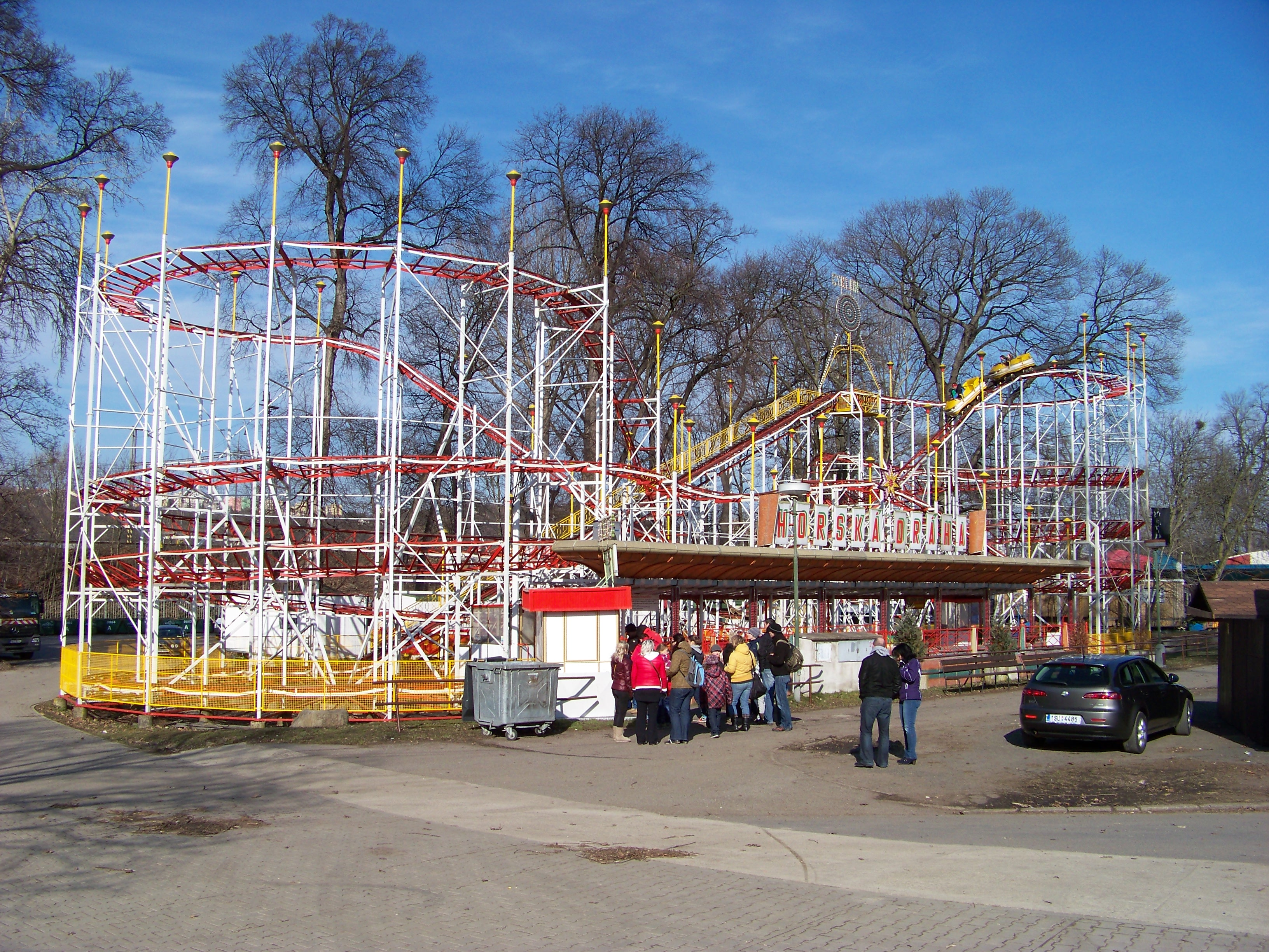 Prague-Bubeneč, the Czech Republic. Saint Matthias Funfair. Cyklon roller coaster. - OpenStreetMap(Info)